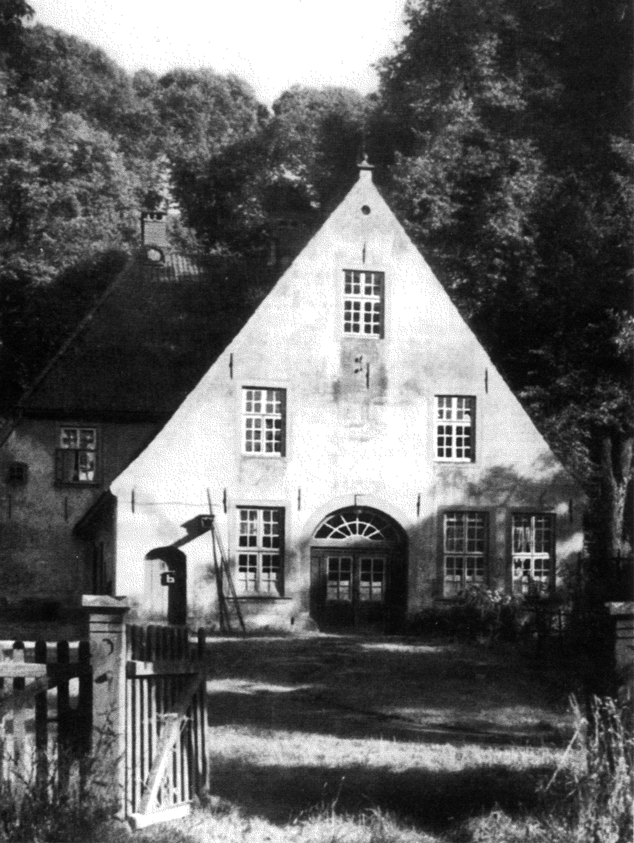 The manor Haus Riensberg in Bremen-Schwachhausen, Germany, in the year 1910.